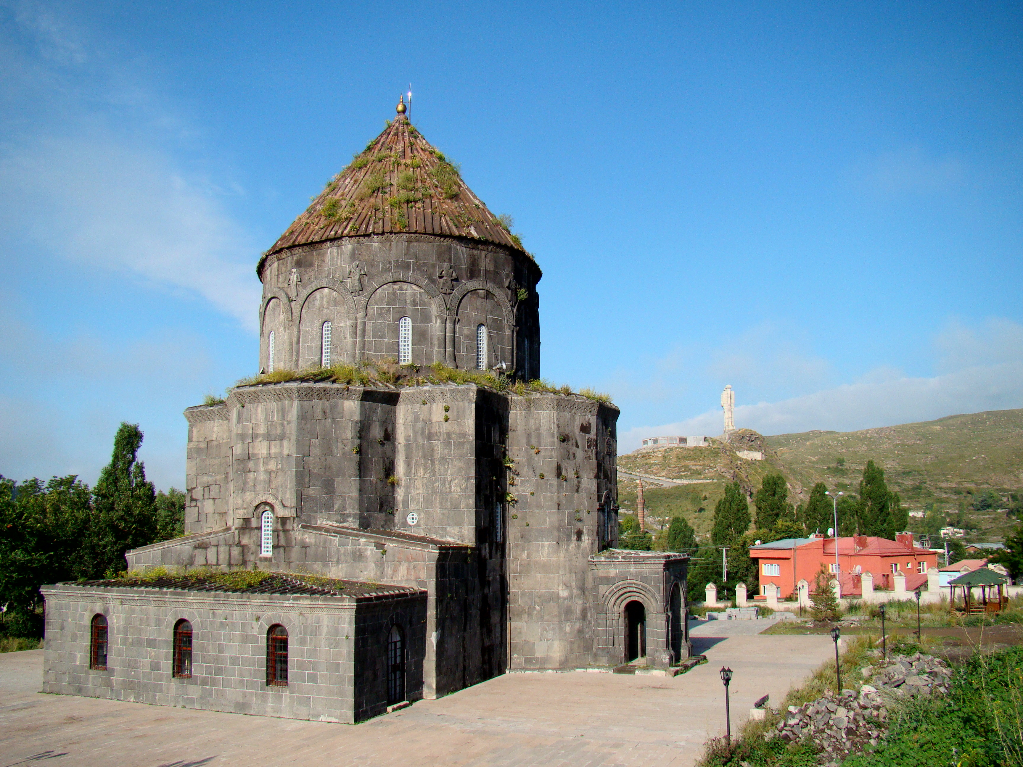 The Holy Apostles Church, or the Cathedral of Kars, was built in 939 as an Armenian church. Later it has been used as a mosque, a Russian orthodox church, a storage hall, and most recently, since 1998, as a mosque again.